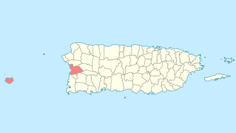 Municipal locator of Puerto Rico